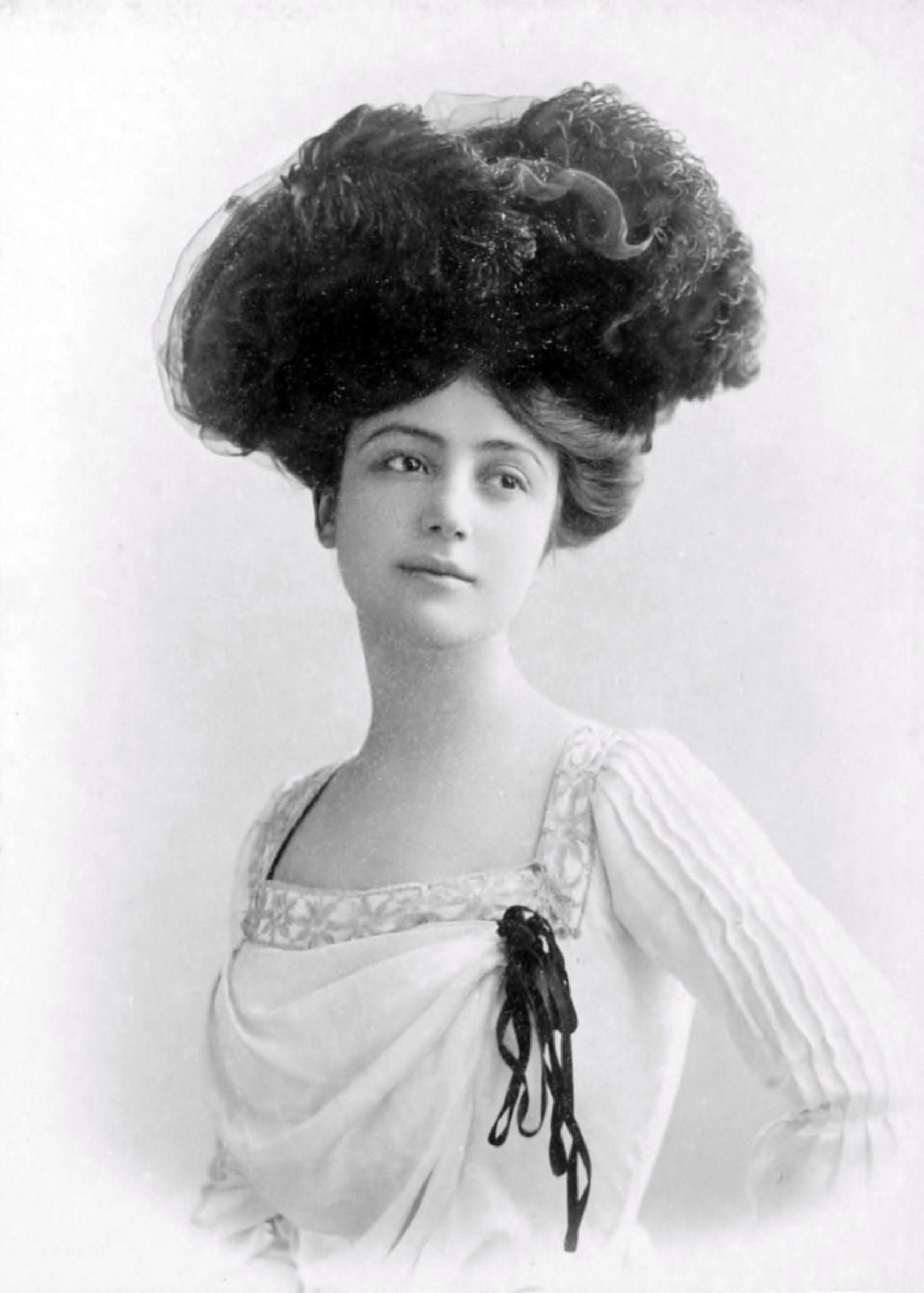 Xavière de Leka, pseudonym of Xavière Colonna de Leca, was a French actress born in Ajaccio (Corsica) on 7 April 1881 and died in Paris (8th arrondissement) on 5 April 1914, at the age of 32 years old. Xavière de Leka was a Boulevard theatre actress and performer of the Moulin Rouge. She plays mainly at the Théâtre des Variétés and the Théâtre des Capucines in Paris during the Belle Époque.